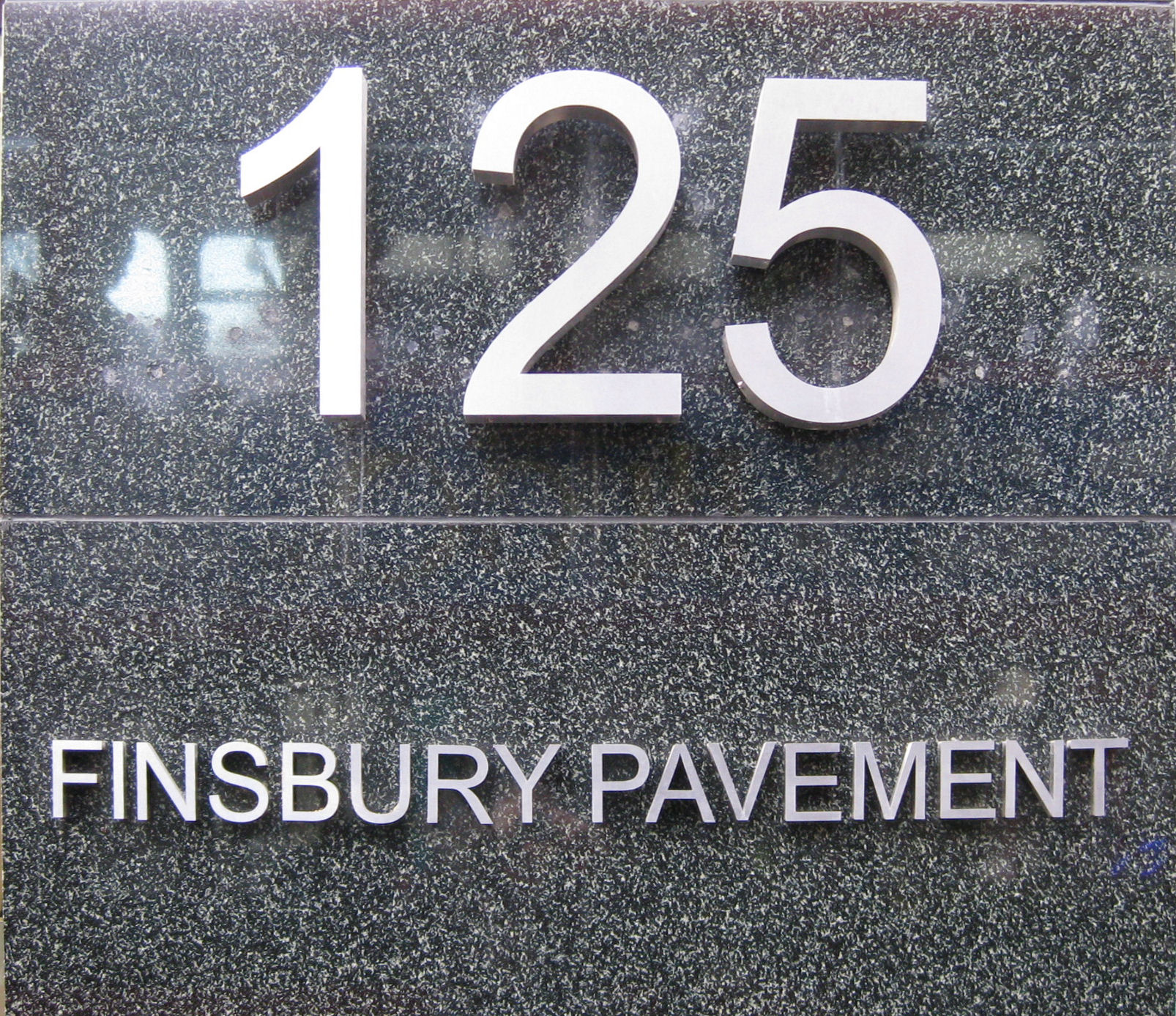 Building number (125) on Finsbury Pavement, Islington, London